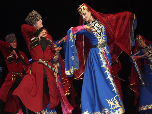 The Circassian Folklore ensemble (Islamey) from the Republic of Adygheya on their party in Maikop (The Capital) - (type own: group of people photographed in a public places)